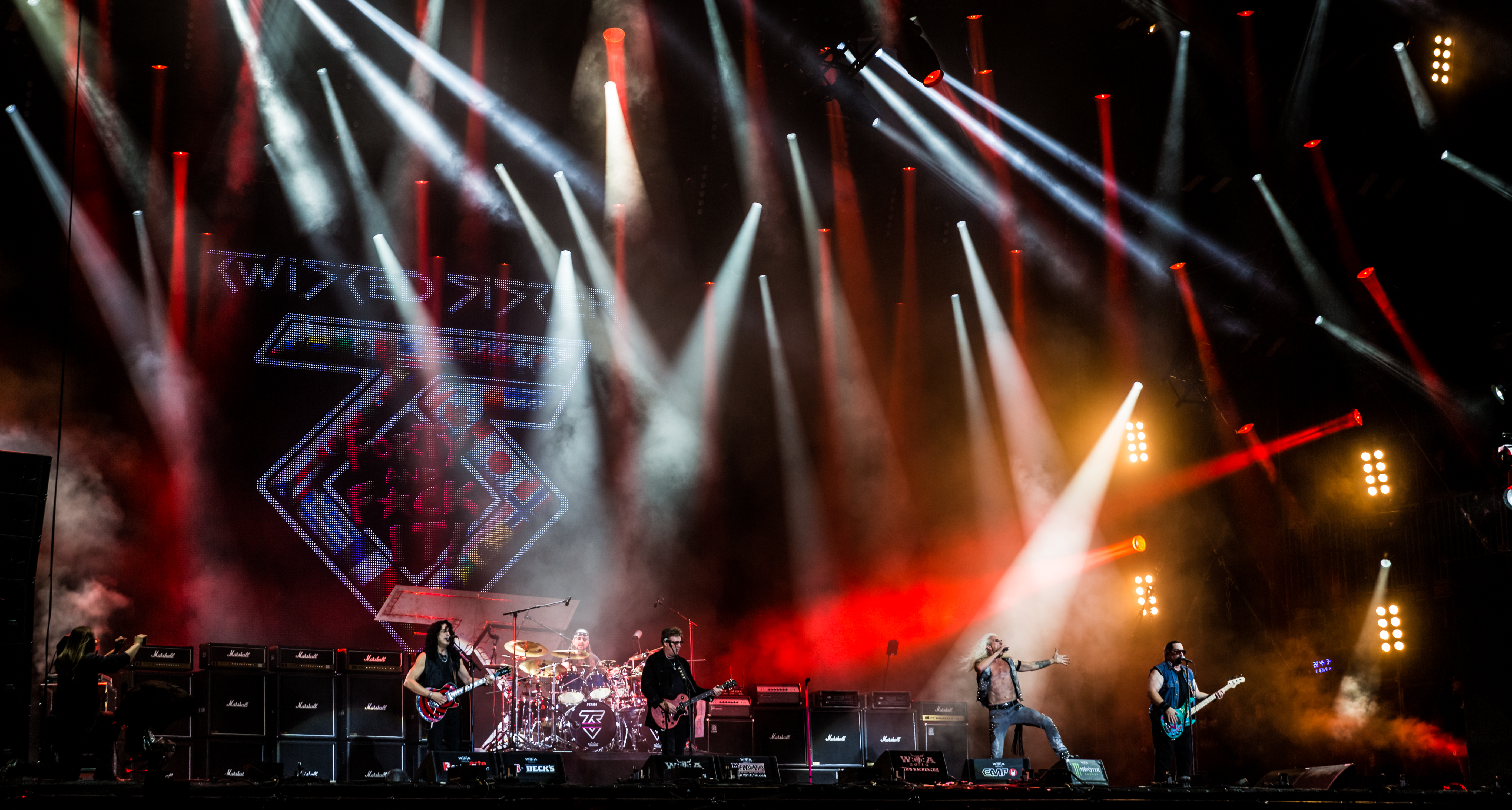 Twisted Sister - Wacken Open Air 2016